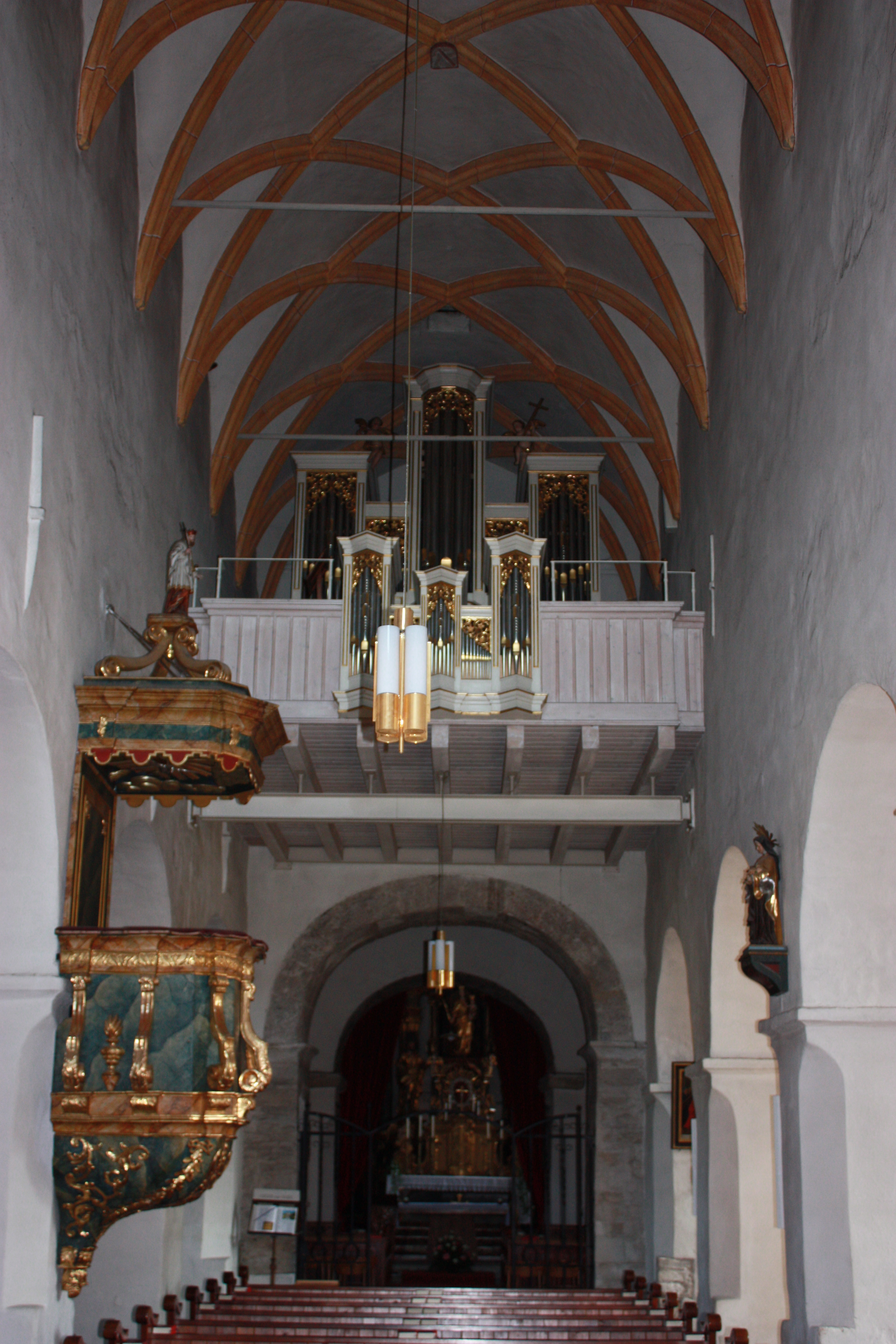 Parish church Maria im Dorn - middle-nave Locality: Kirchgasse Community:Feldkirchen in Kärnten